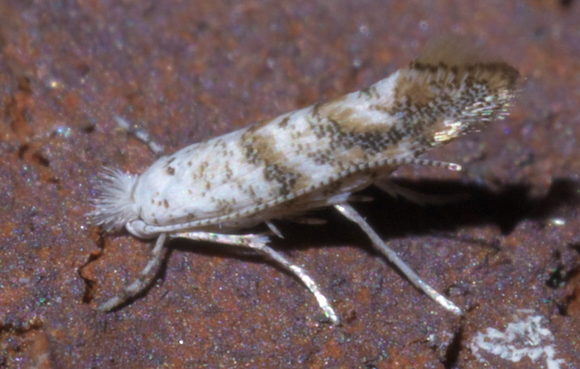 Cameraria hamadryadella, solitary oak leafminer, ID Confidence: 90